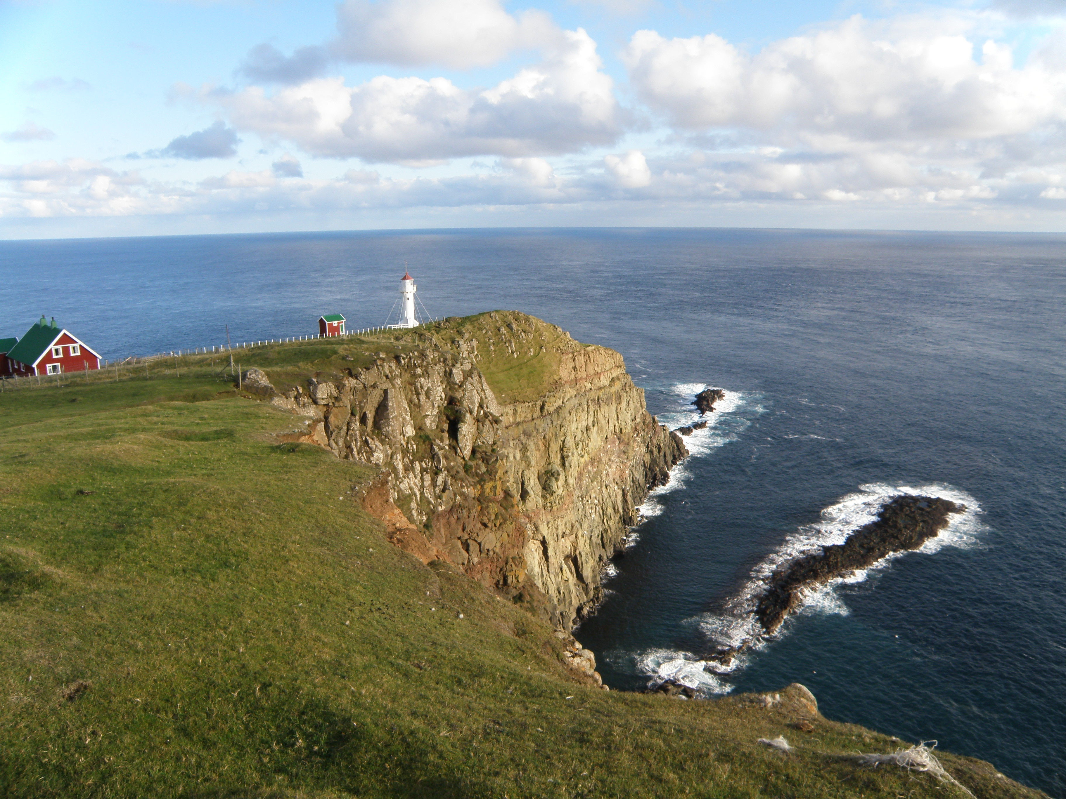 View towards south from the headland of Akraberg, which is the southernmost tip of Suðuroy, the southernmost island of the Faroe Islands. The lighthouse was built in 1909.